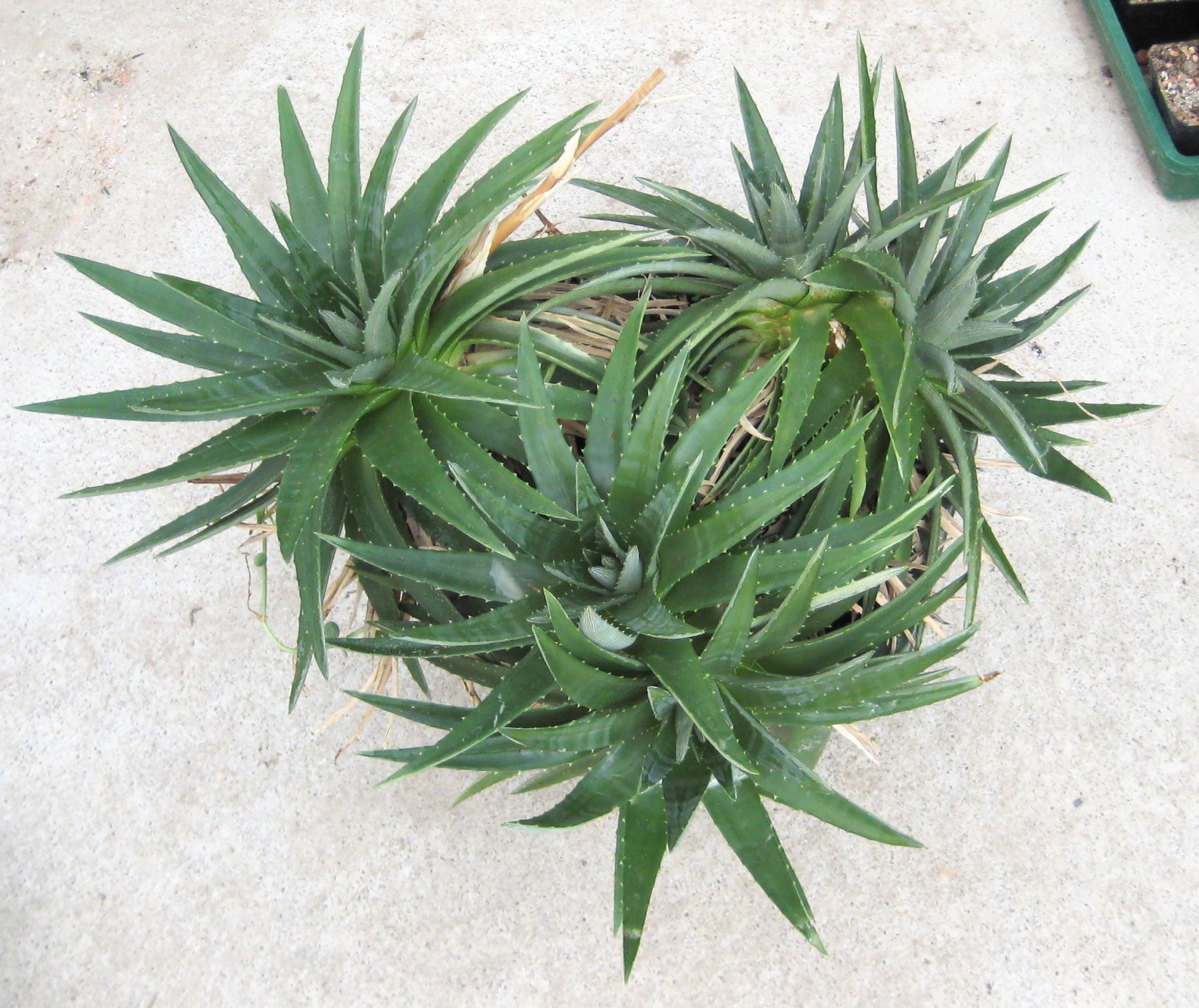 Dyckia brevifolia — in Kultur